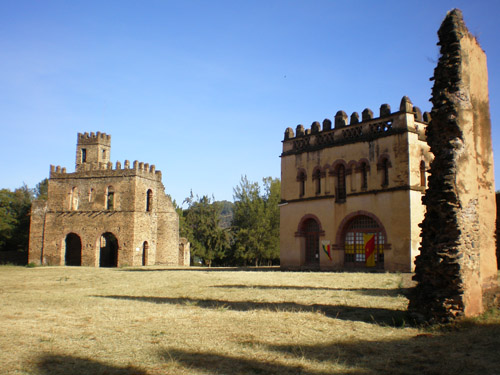 Palaces in Gindar, Ethiopia